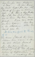 Letter from Florence Nightingale to Mary Mohl, November 2, 1881